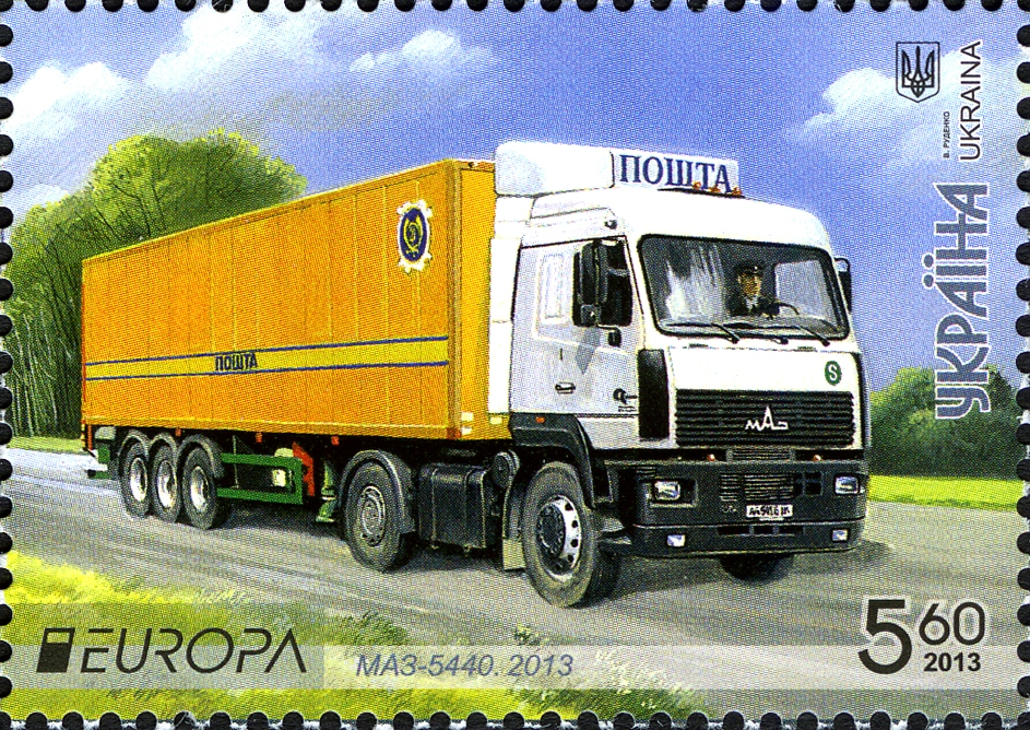 Stamps of Ukraine, 2013